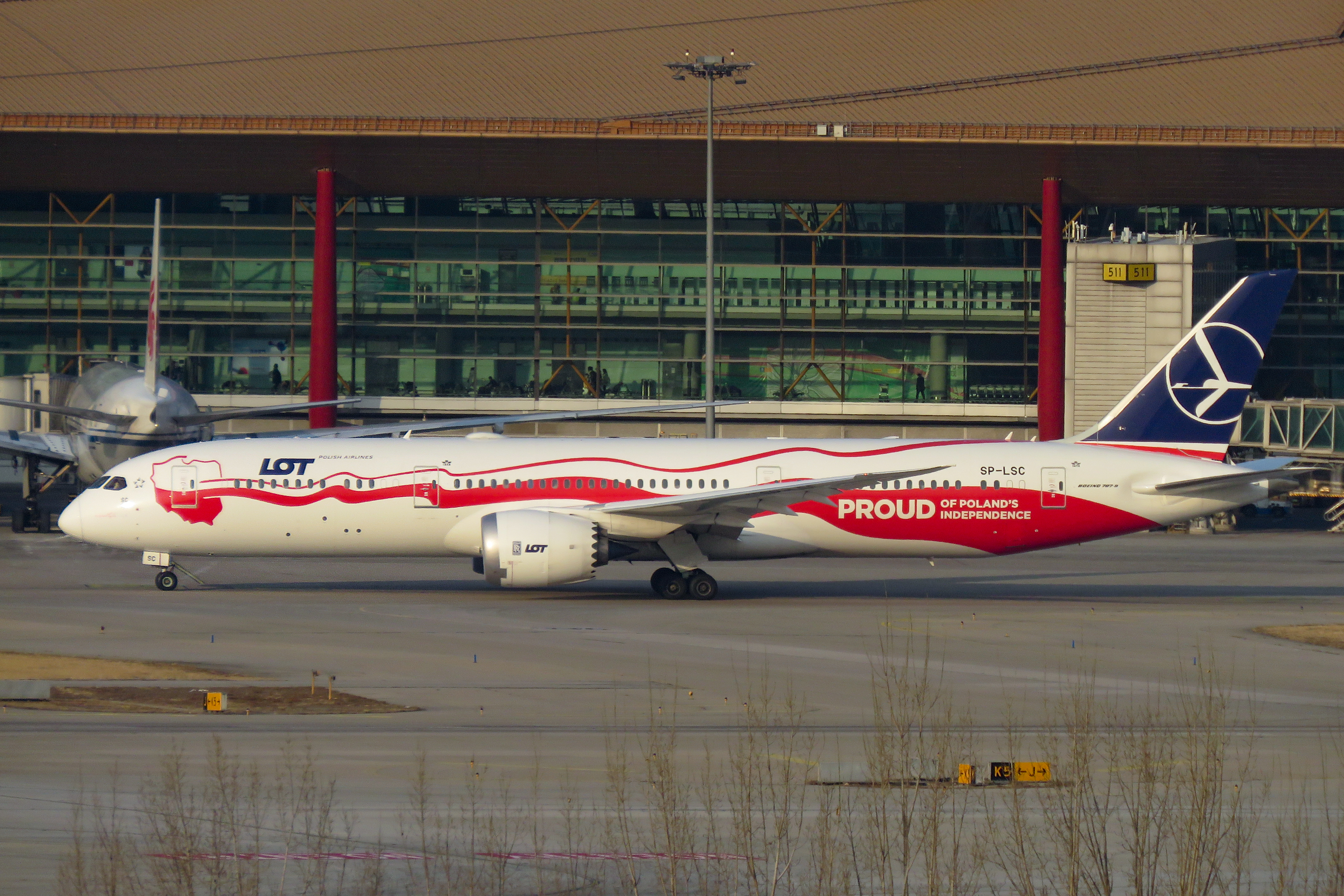 LOT 92 to Warsaw, flown by this “Dumni z niepodległości Polski”, aka “Proud of Poland’s Independence”. Now I've got both JK and LO... although disambiguation is needed! JK for Huanghe-brand buses (acronym for "济南客车", Jǐnán Kèchē), and LO for LOT Polish Airlines, not those Joshi Kōsei and Lolita things.